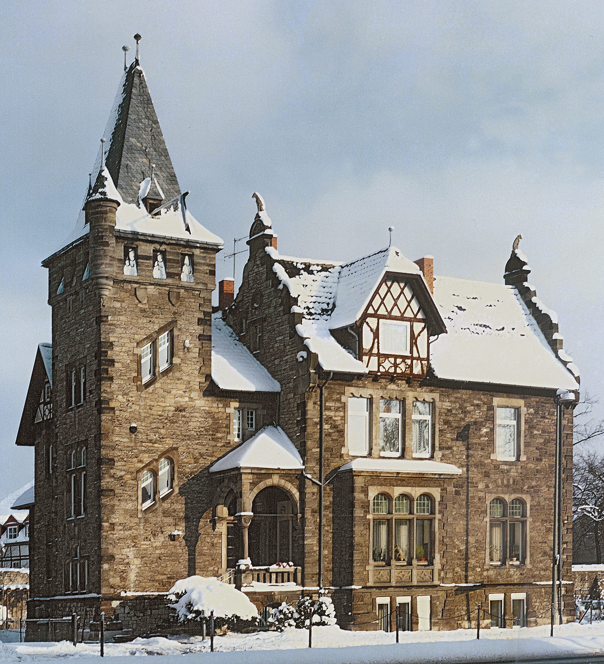 House of the Göttingen student fraternity Corps Brunsviga Haus des Corps Brunsviga Göttingen